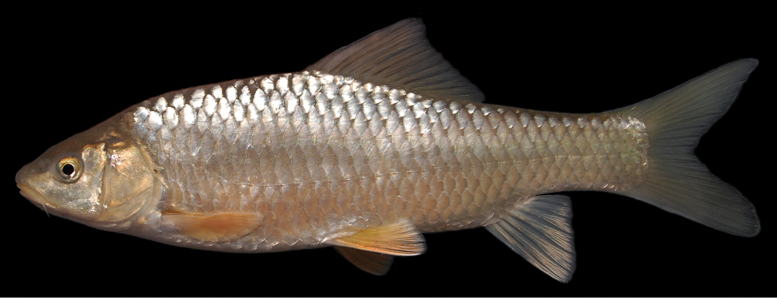 Carasobarbus chantrei, live specimen from Buḩayratt Qaţţīnah.